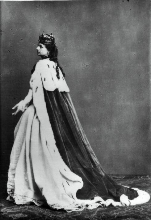 Helena Modrzejewska as Jadwiga Queen of Poland